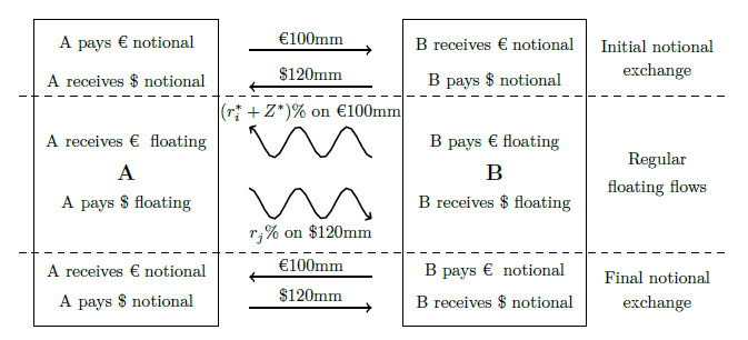 Depicts the flows diagram of a non-MTM cross-currency swap.